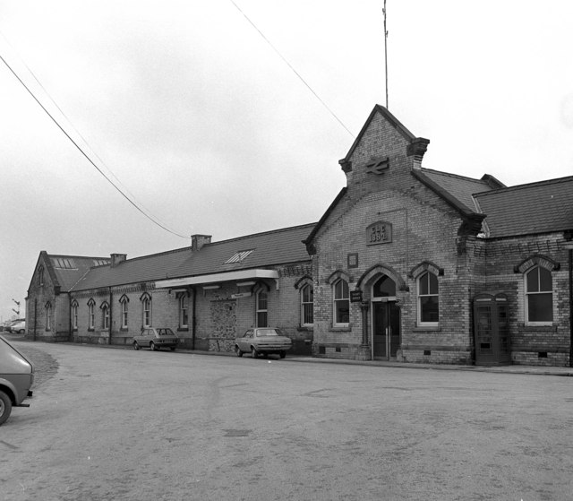 Northwich station Exterior view in 1979. This station was built by the Cheshire Lines Committee, which was jointly owned by three railways: The Midland, the Great Central, and the Great Northern. The Great Central probably had the most influence over policy.